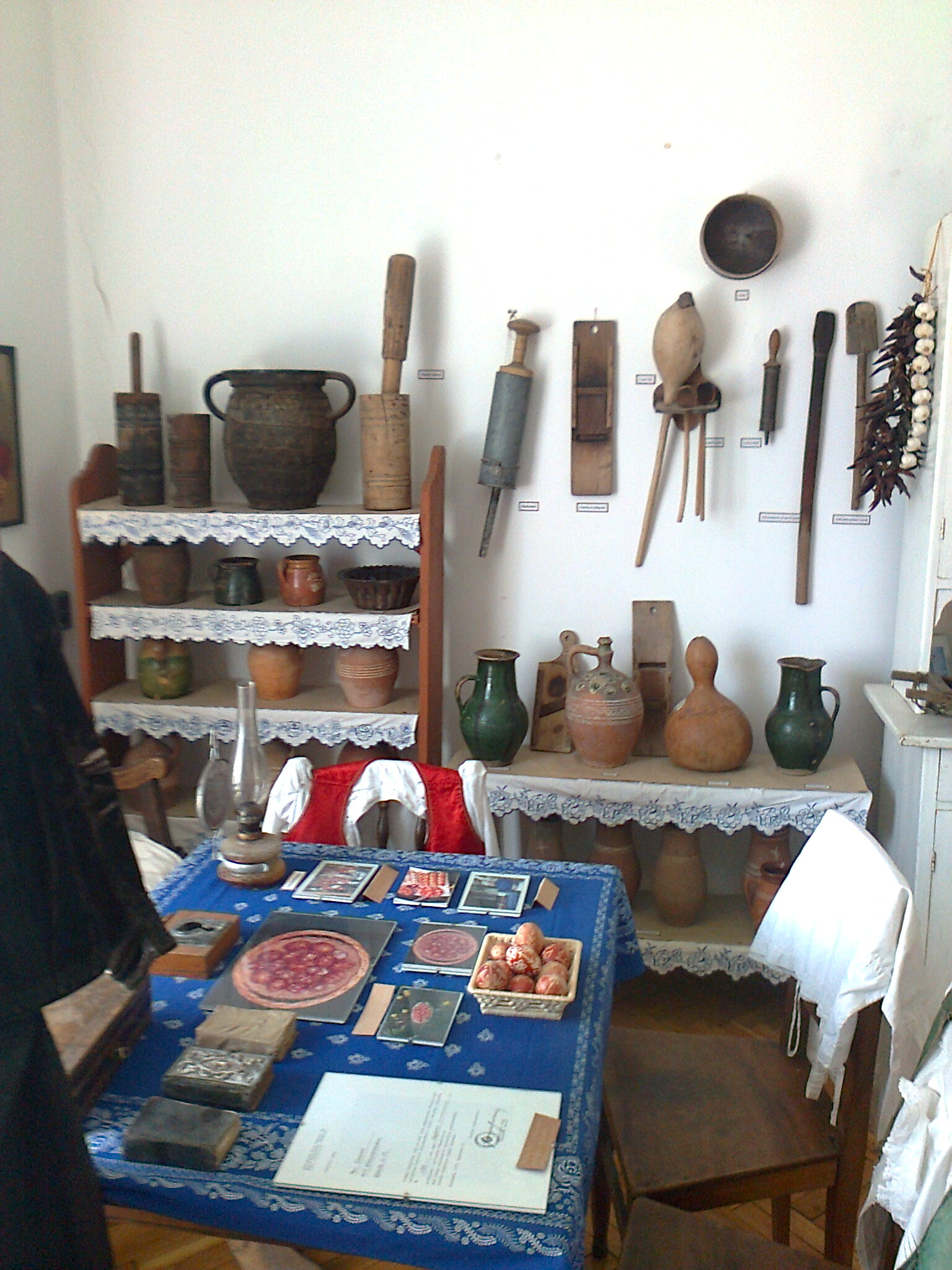 Detail of Kőszegszerdahely Ethnographic Exhibition